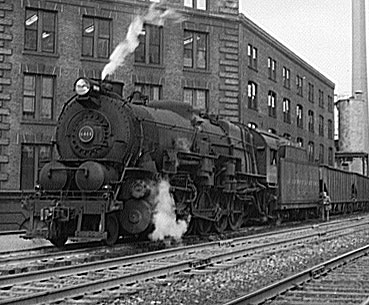 Pennsylvania Railroad I1s 2-10-0 steam locomotive prepares to leave the Pennsylvania Railroad docks at Cleveland with a trainload of iron ore in May, 1943. United States Office of War Information photo.